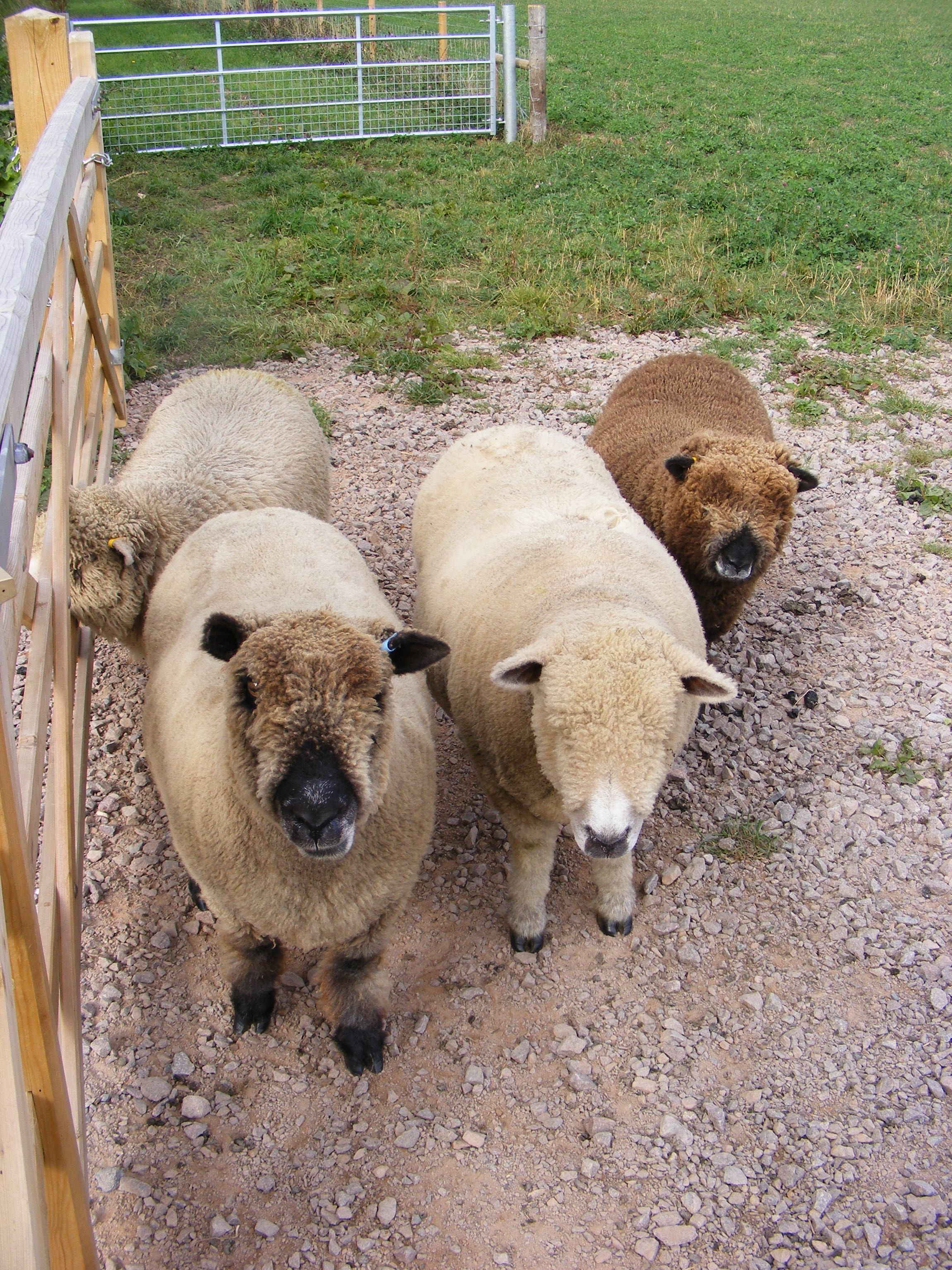 Ryeland Sheep in Reepham Road